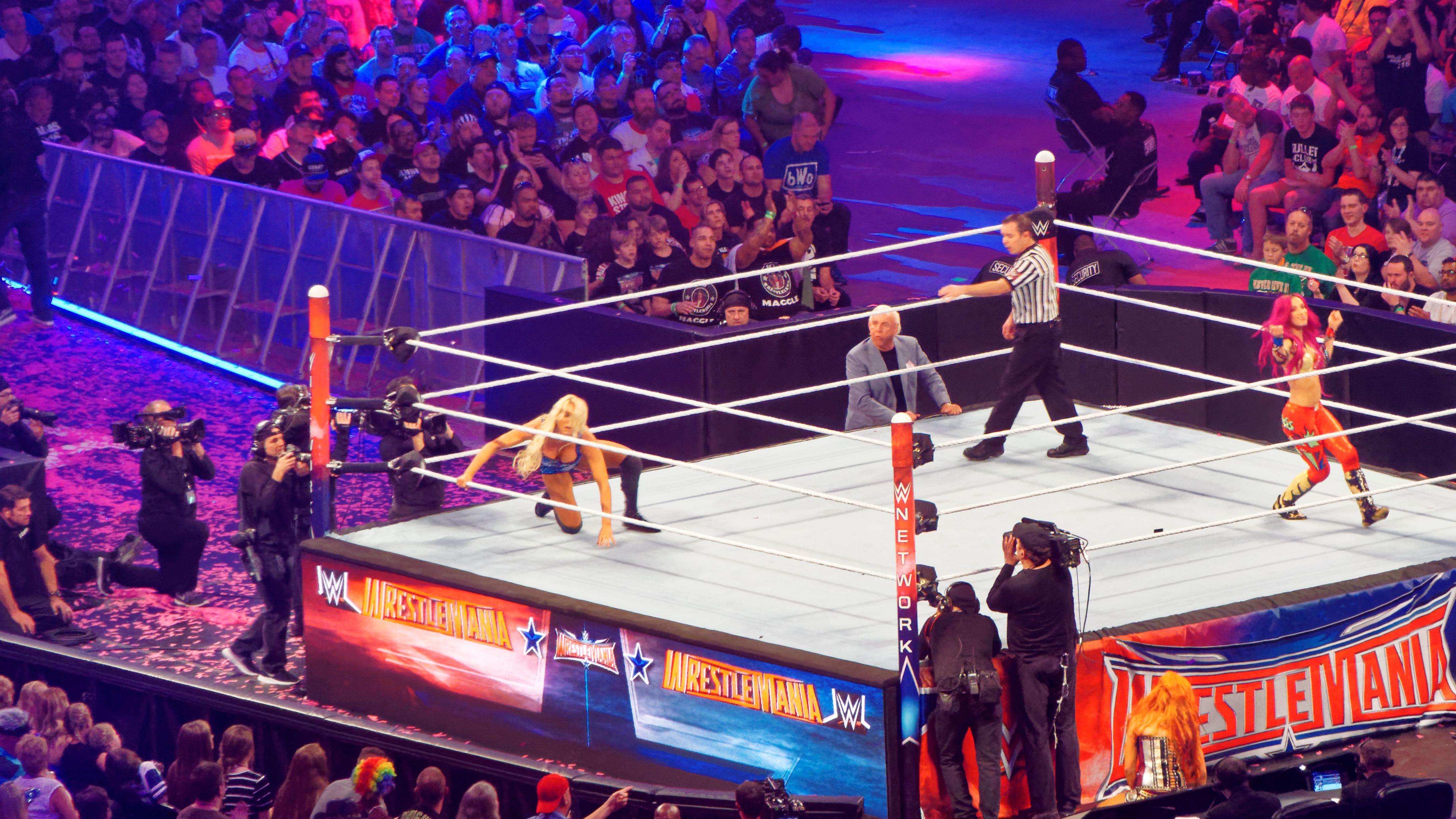 WrestleMania 32 was the thirty-second annual WrestleMania professional wrestling pay-per-view (PPV) event produced by WWE. It took place on April 3, 2016, at AT&T Stadium in Arlington, Texas. Twelve matches were contested on the card (with three matches occurring on the WrestleMania Kickoff pre-show - two airing live on the USA Network, which televised the second hour of the pre-show). Charlotte def. (sub) Becky Lynch, Sasha Banks (in 16:03) Type of match : triple-threat For : WWE Women's Championship (new Woman Title) Rating : ****